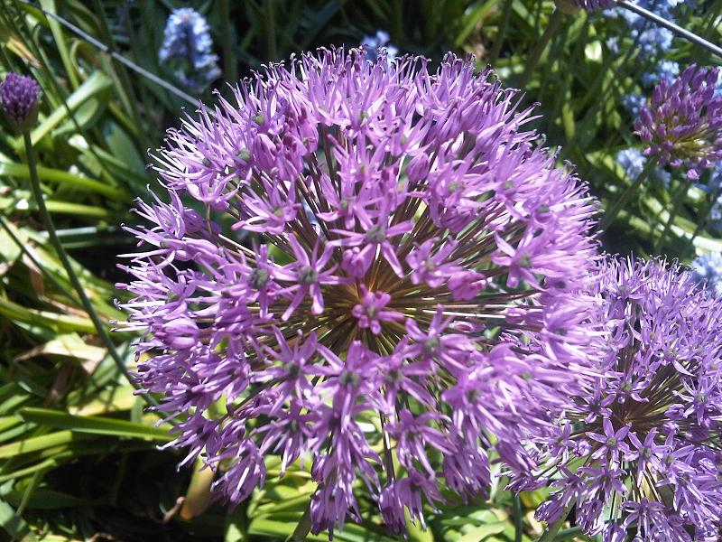 Allium aflatunense flowers in London, England.